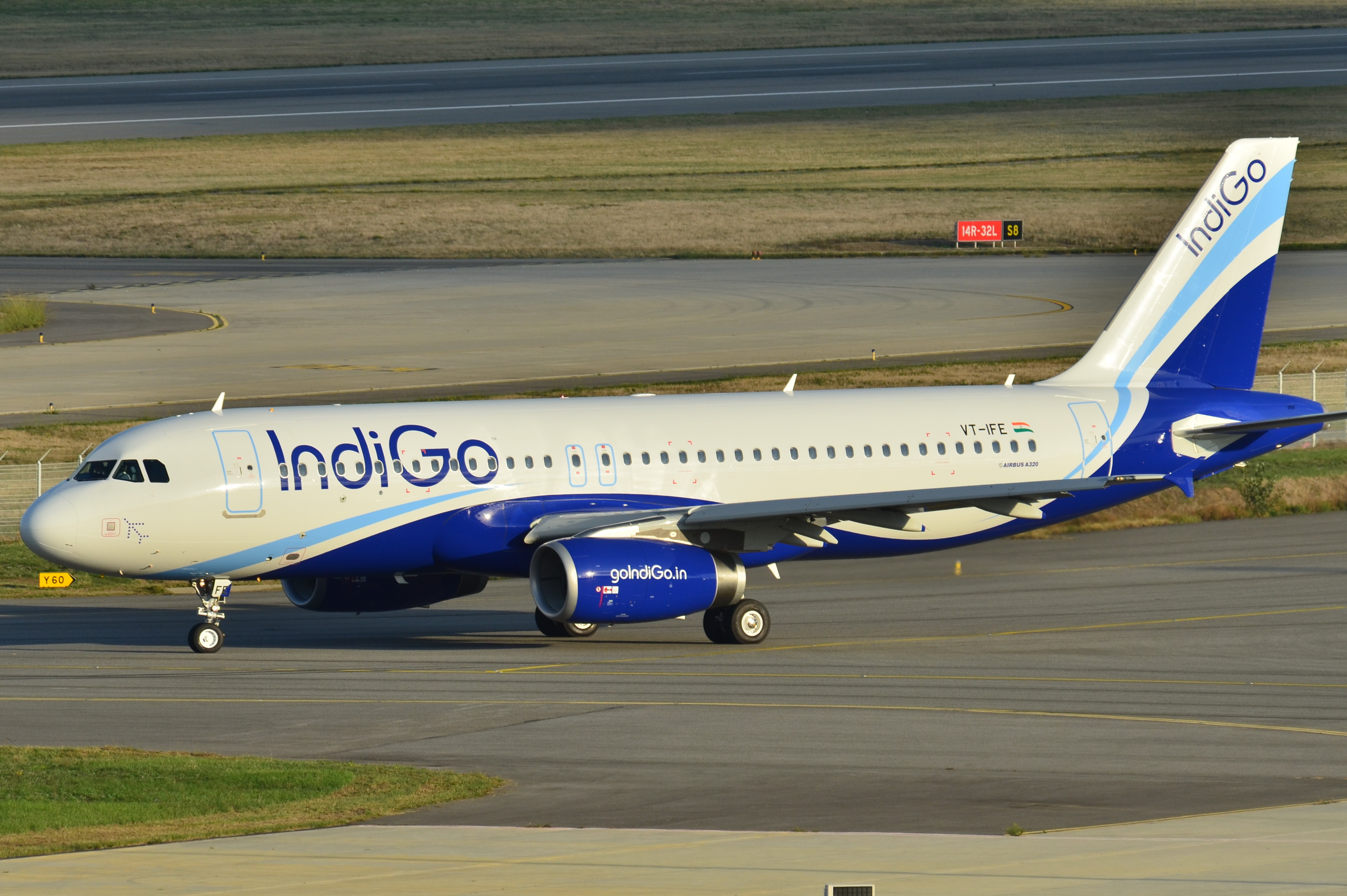 Picture taken at Toulouse-Blagnac Airport (LFBO) in France.